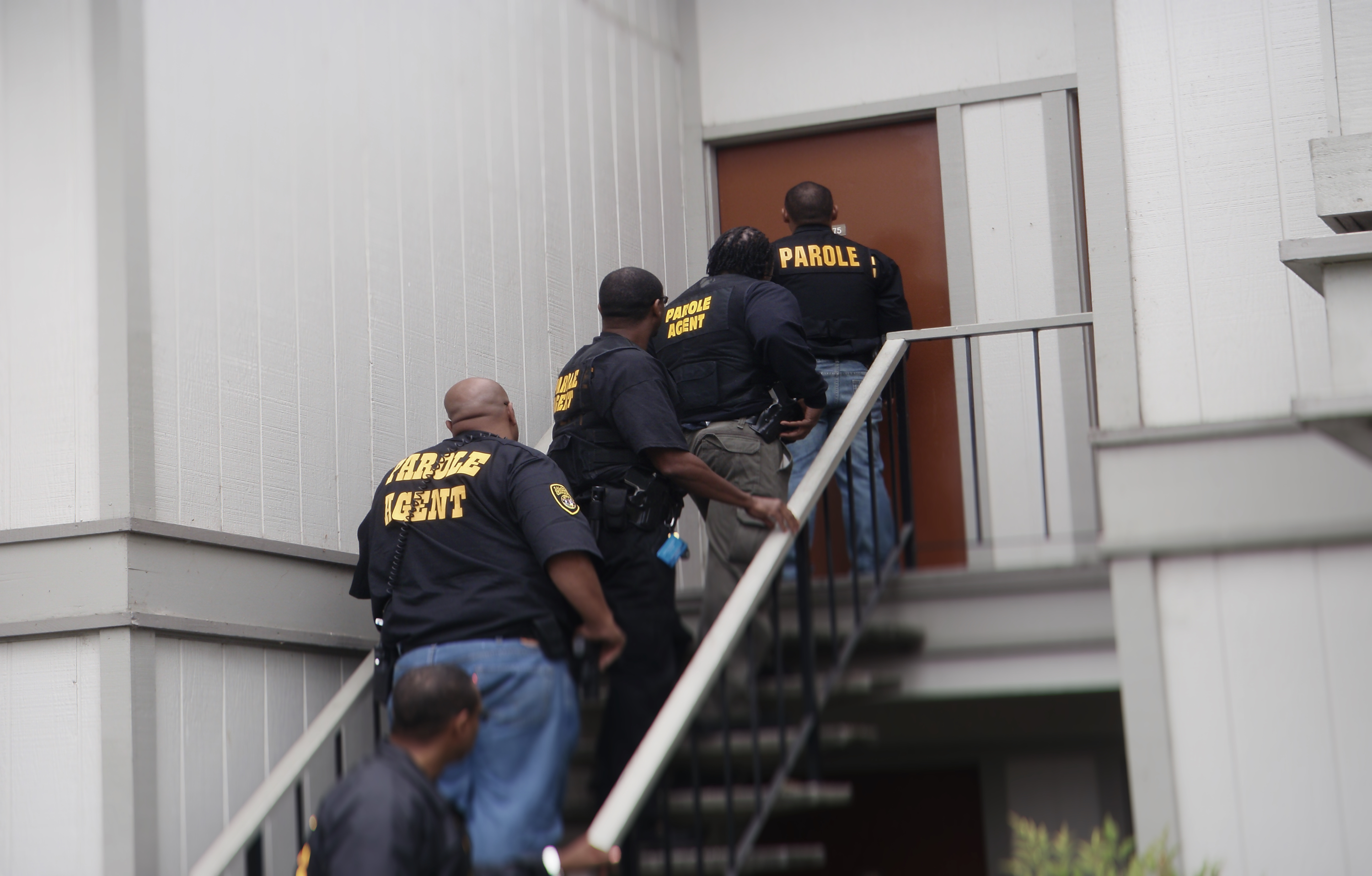 CDCR parole agents conducting parole compliance checks